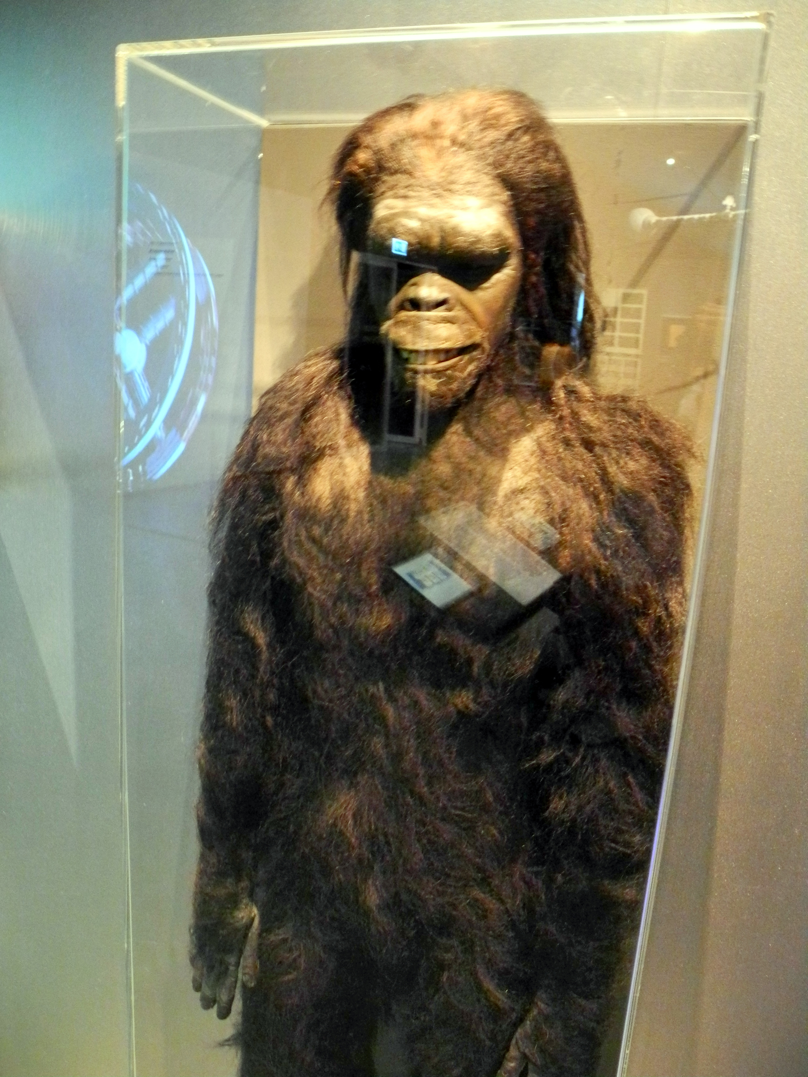 Original suit from Stanley Kubrick's 2001: A Space Odyssey.